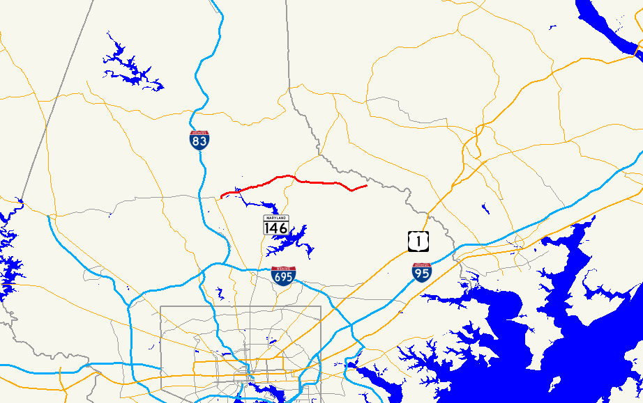 Map of Maryland Route 145